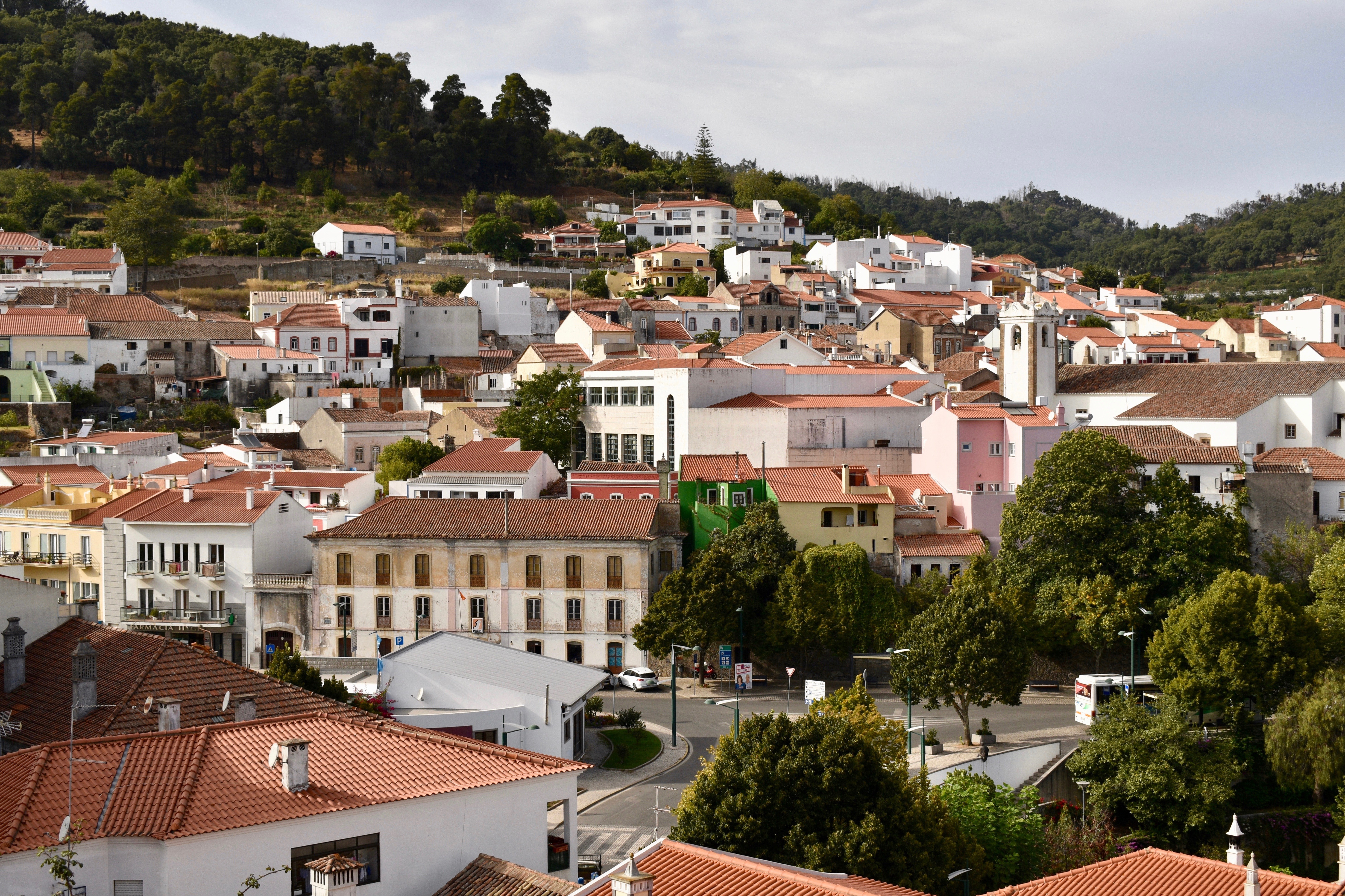 General view of the main historical part of the village of Monchique, in the Southern Portugal's region of the Algarve.